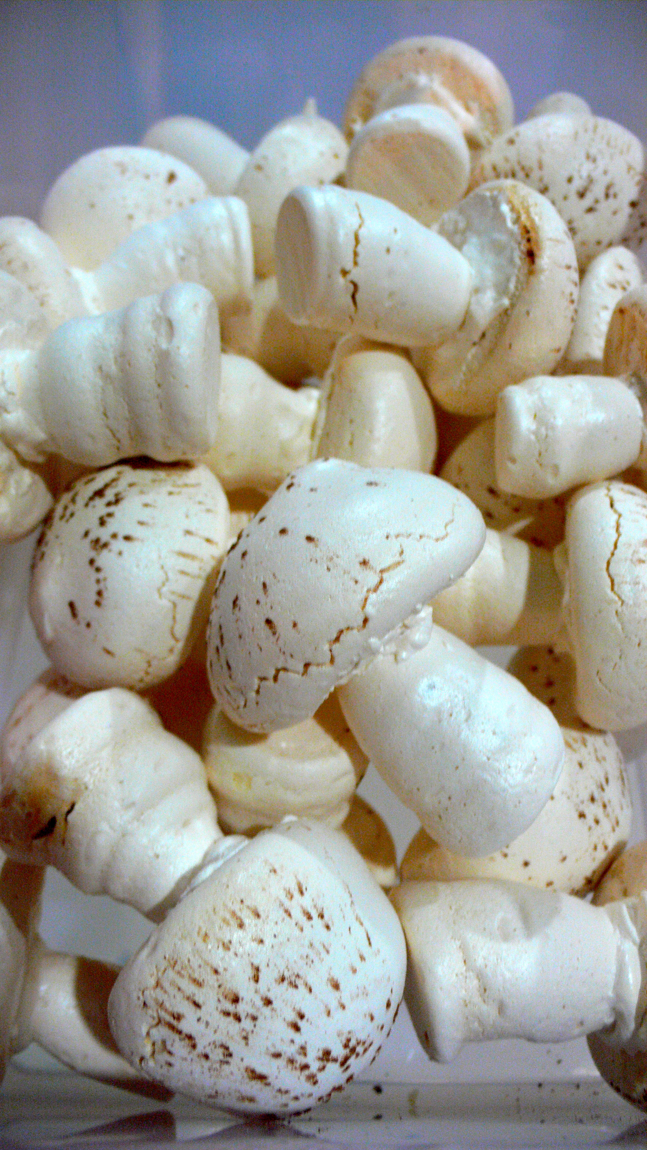 Many meringue mushrooms for decoration on a Bûche de Noël.